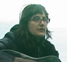 Alice Cohen , performing at SPRINGTIME UNAMPLIFIED ACOUSTIC BAR-B-QUE,Prospect Park, Brooklyn, May 9 2005